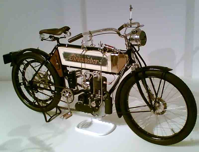 Brennabor 250 cc HT 1904